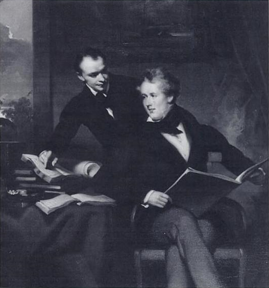 John Morrison (right) and colleague (perhaps Leonardo D'Almada e Castro).